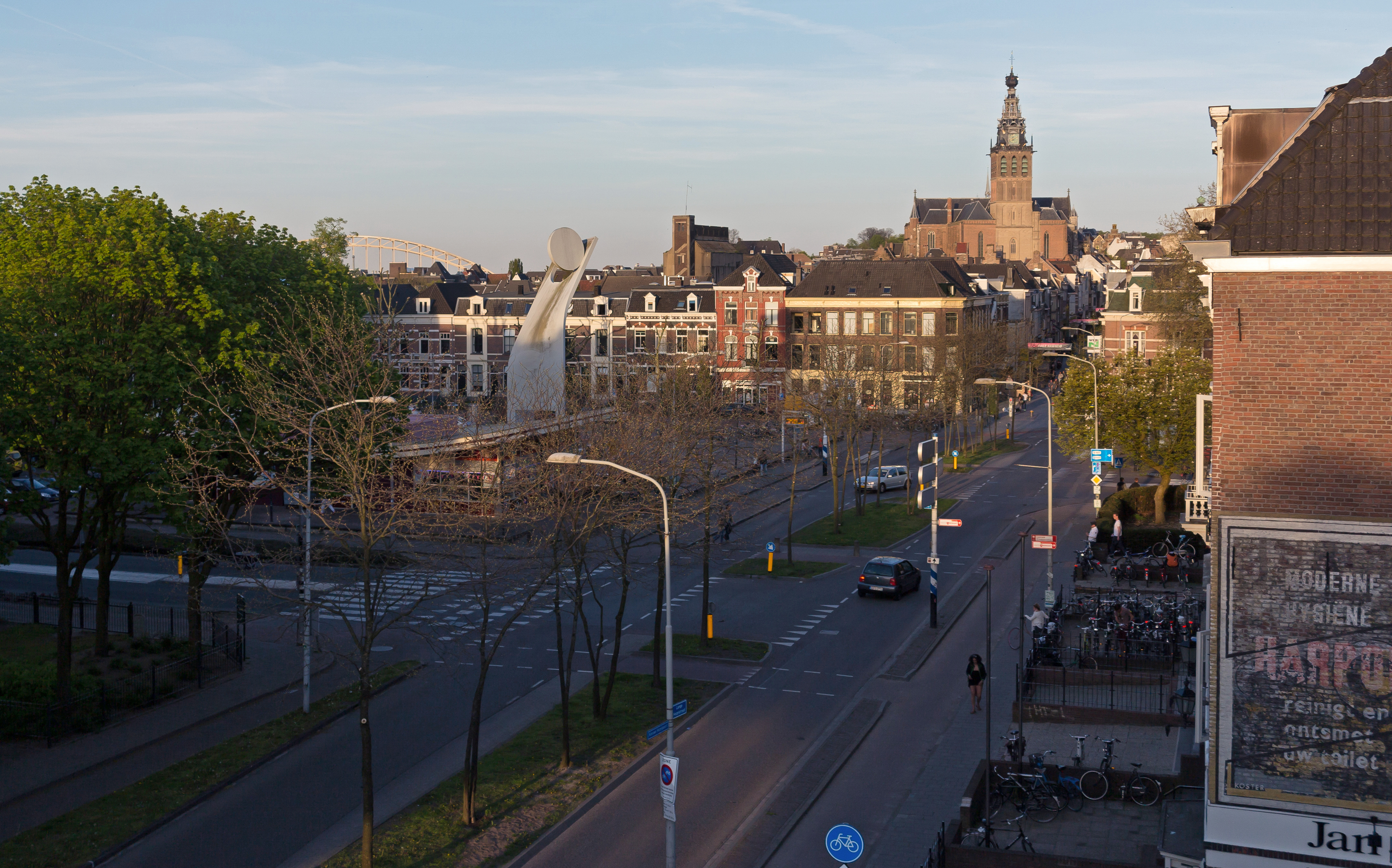 Nijmegen, church (de Stevenskerk) and bridge (de Waalbrug) from the railway bridge